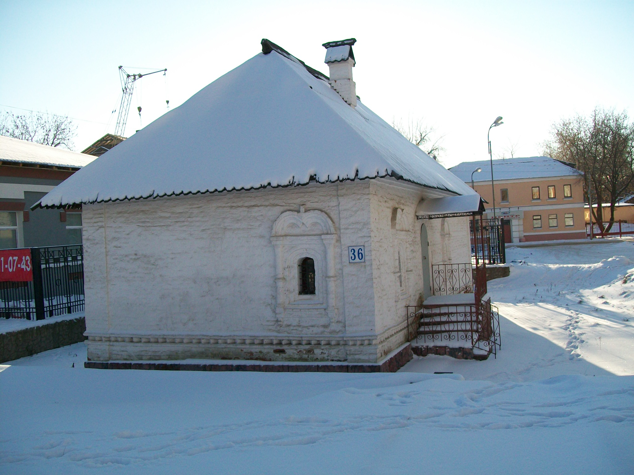 Ivanovo. Shchudrovsky tent (shop)